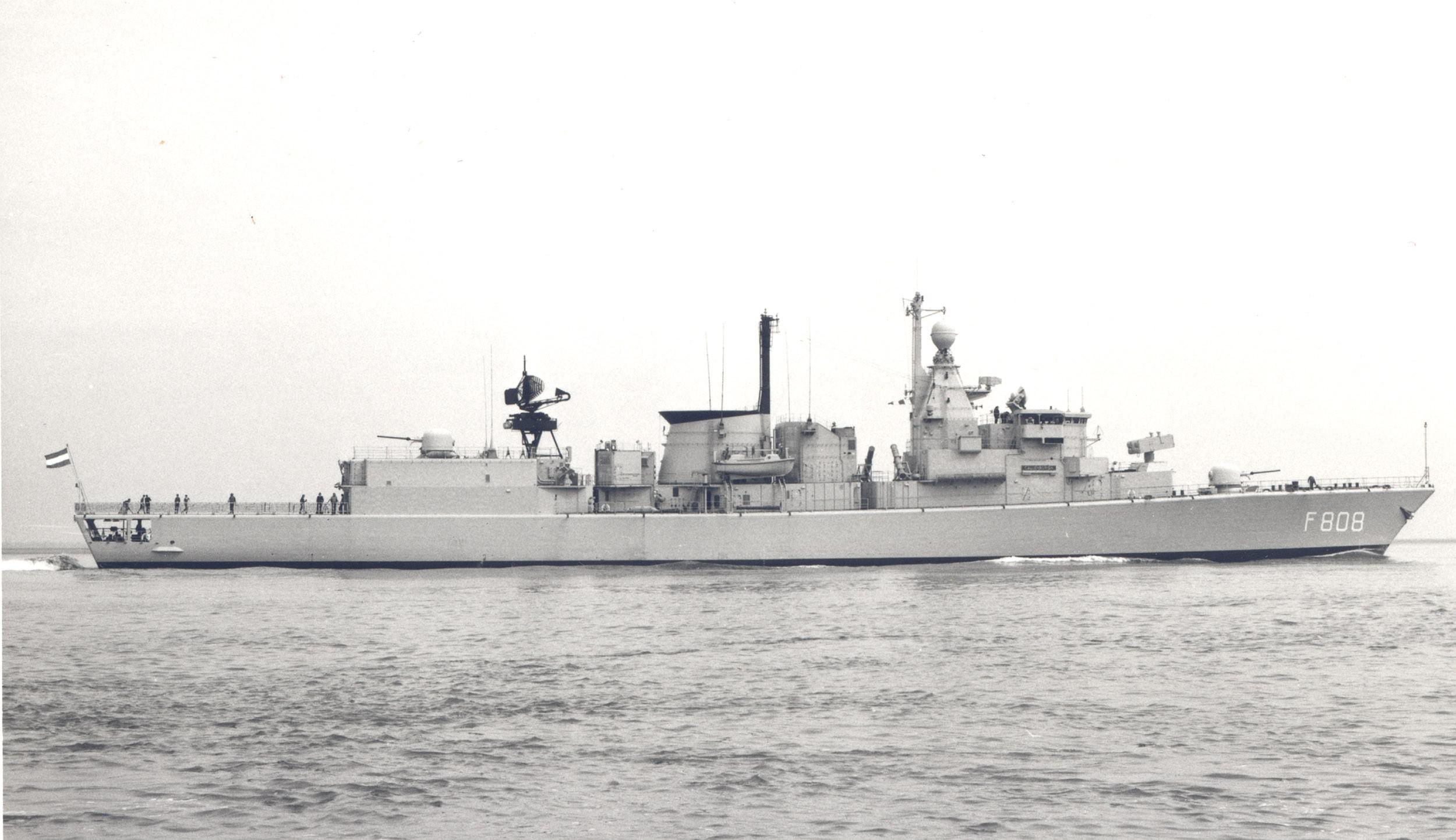 HNLMS Callenburgh (F808)